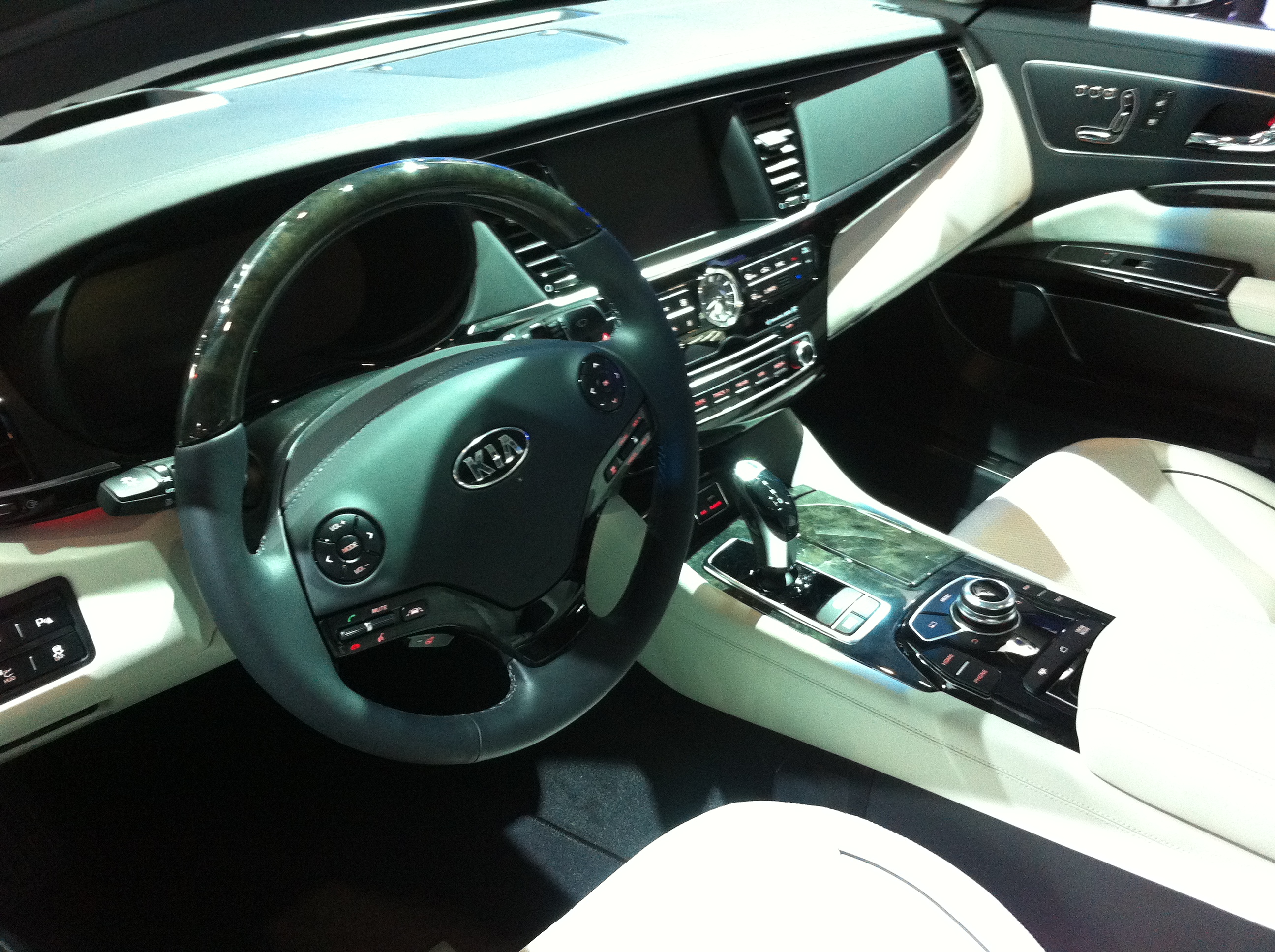 New York Auto Show